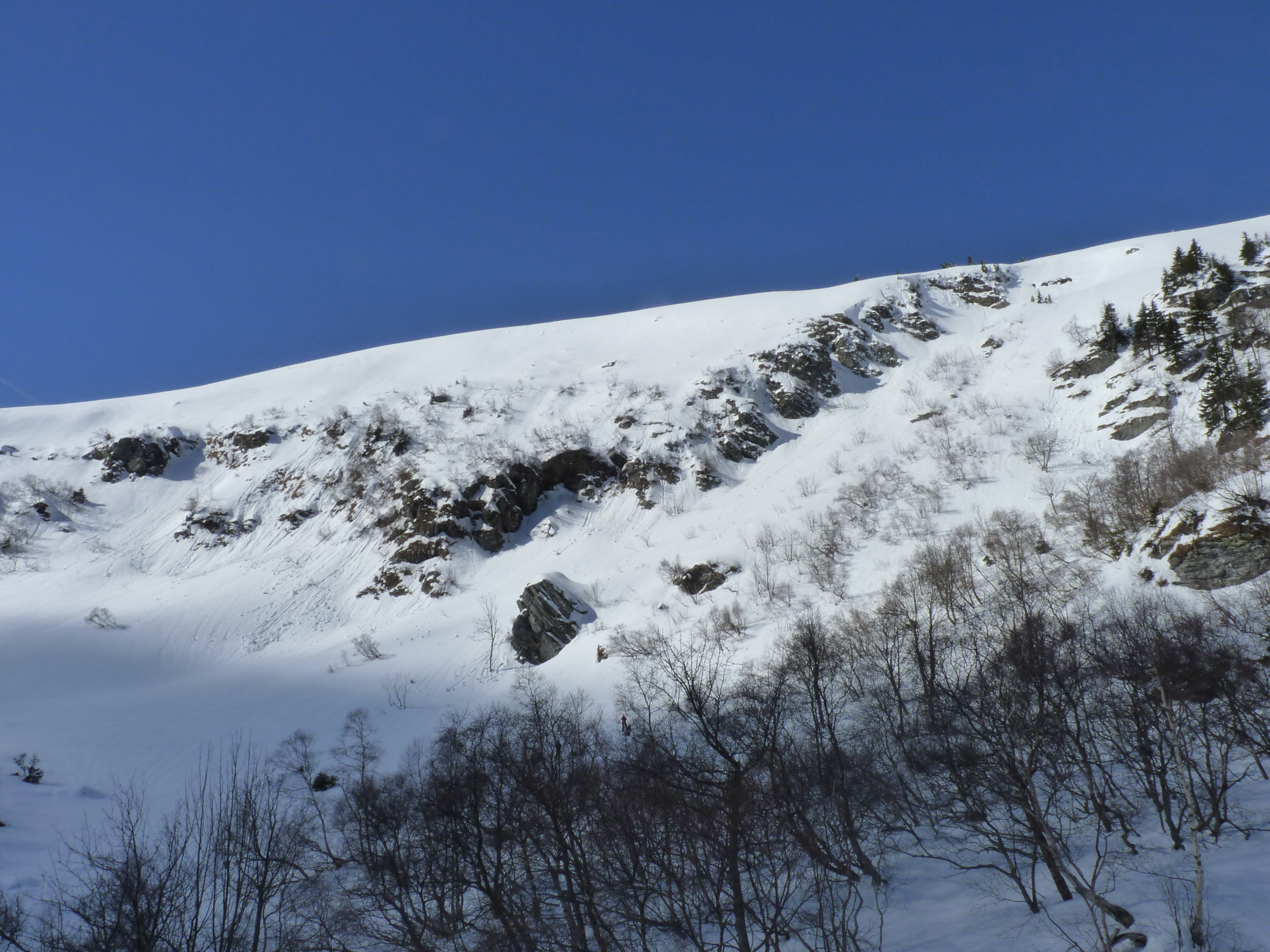 National nature reserve Praděd which lies in three districts: Sumperk, Bruntal and Jesenik. Czech Republic Project: Chráněná území